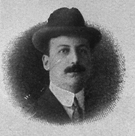 Vasileios Kolokotronis (1880-1926): Greek playwright